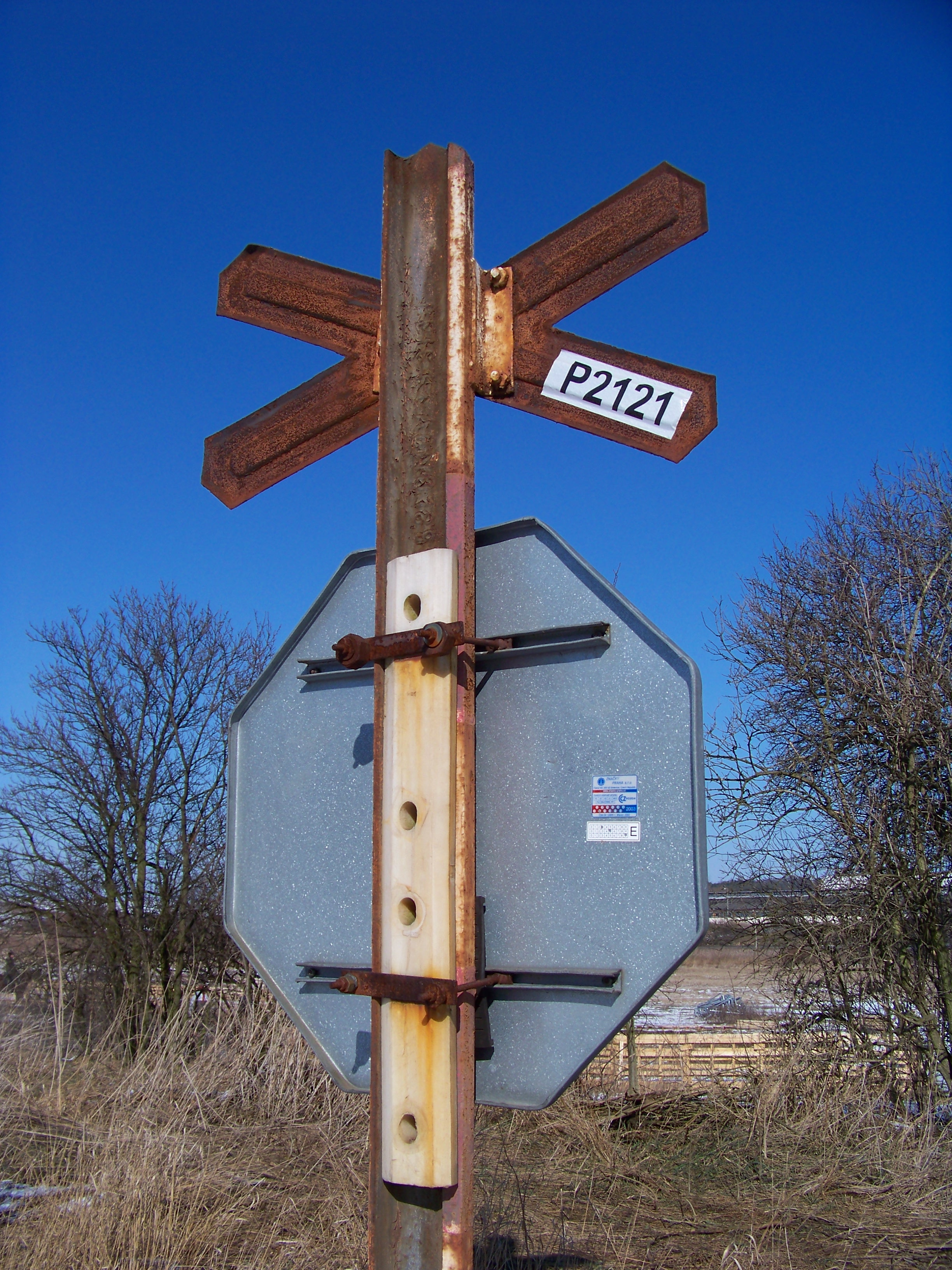 Olovnice, Mělník District, Central Bohemian Region, the Czech Republic. A level crossing.